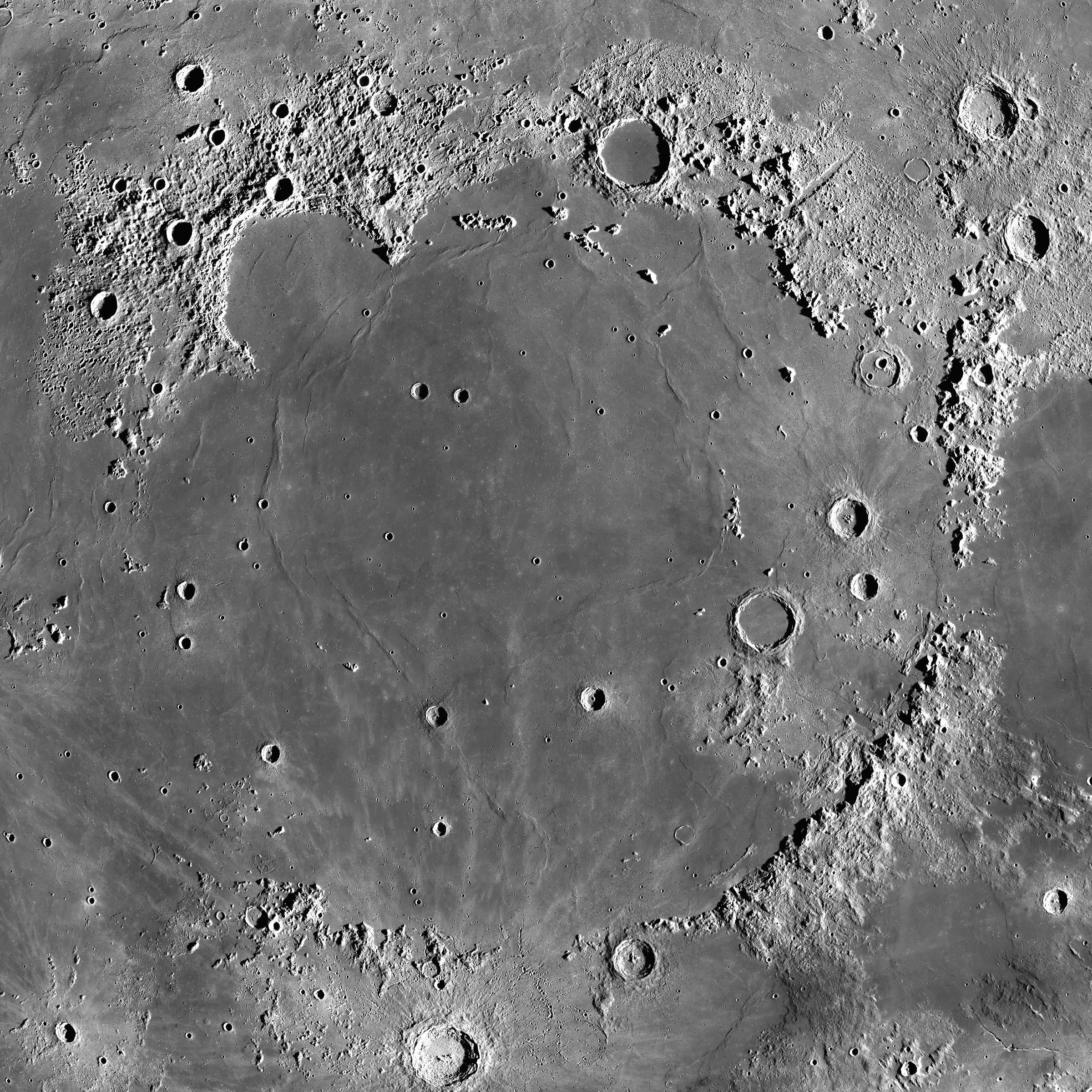 Mare Imbrium on the Moon. Mosaic of photos by Lunar Reconnaissance Orbiter, made with Wide Angle Camera. Size of the image is 1100×1100 km, north is up. A map in orthographic projection, centered at 34.7°N, 14.9°W (but center of the cropped piece is somewhat other). The image has the same borders and resolution as a topographic map Mare Imbrium (GLD100).gif